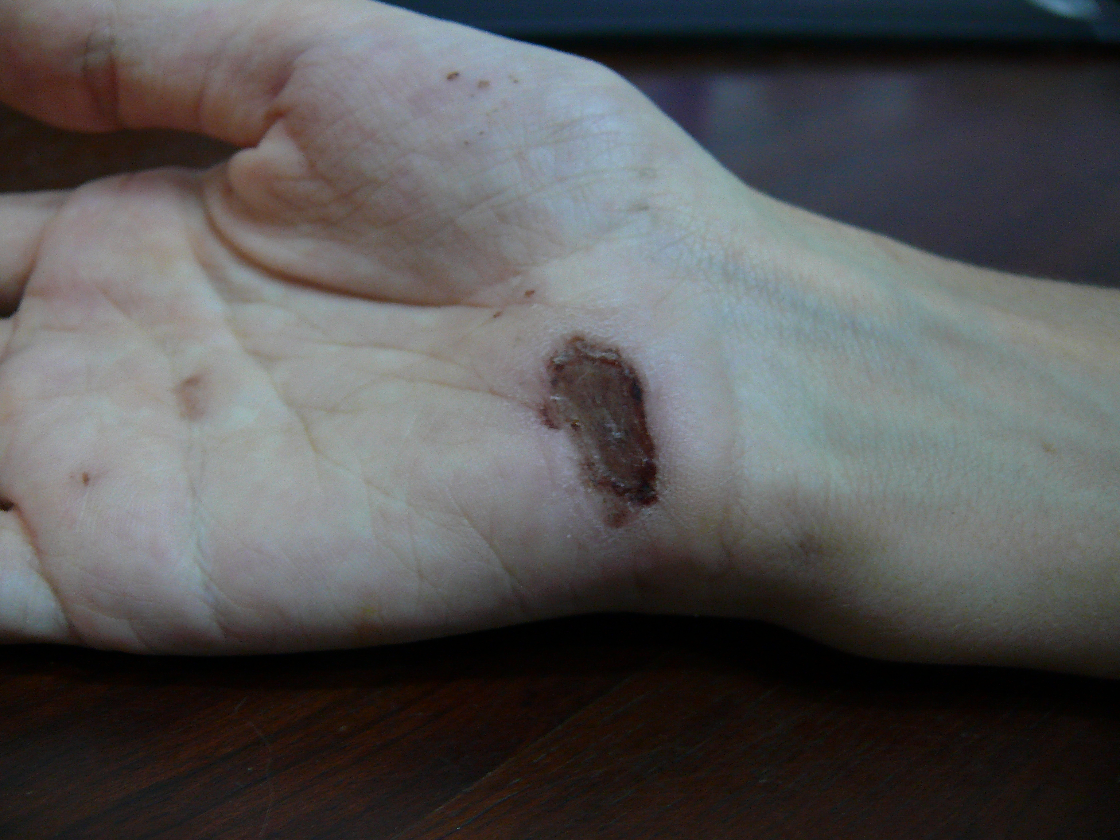 Wound on palm of hand five days after falling off a bike onto concrete. Previous photos: Day 1: Image:Wound on palm of hand.jpg Day 2: Image:Wound on palm of hand - day 2.jpg Day 3: Image:Wound on palm of hand - day 3.jpg Day 4: Image:Wound on palm of hand - day 4.jpg Following photos: Day 6: Image:Wound on palm of hand - day 6.jpg Day 7: Image:Wound on palm of hand - day 7.jpg Day 8: Image:Wound on palm of hand - day 8.jpg Day 9: Image:Wound on palm of hand - day 9.jpg Day 10: Image:Wound on palm of hand - day 10.jpg Day 11: Image:Wound on palm of hand - day 11.jpg Day 12: Image:Wound on palm of hand - day 12.jpg Day 13: Image:Wound on palm of hand - day 13.jpg Day 14: Image:Wound on palm of hand - day 14.jpg Day 15: Image:Wound on palm of hand - day 15.jpg Day 16: Image:Wound on palm of hand - day 16.jpg Day 17: Image:Wound on palm of hand - day 17.jpg Day 18: Image:Wound on palm of hand - day 18.jpg Day 19: Image:Wound on palm of hand - day 19.jpg Day 20: Image:Wound on palm of hand - day 20.jpg